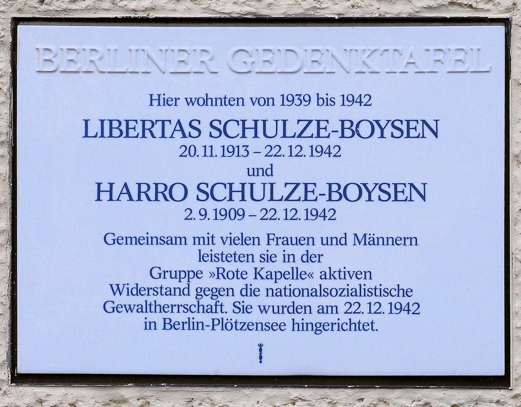 Berlin memorial plaque, Libertas Schulze-Boysen, Altenburger Allee 19, Berlin-Westend, Germany